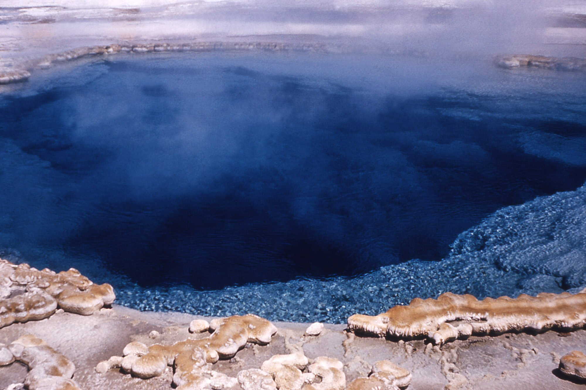 Sapphire Pool, Upper Geyser Basin, Yellowstone National Park, Wyoming